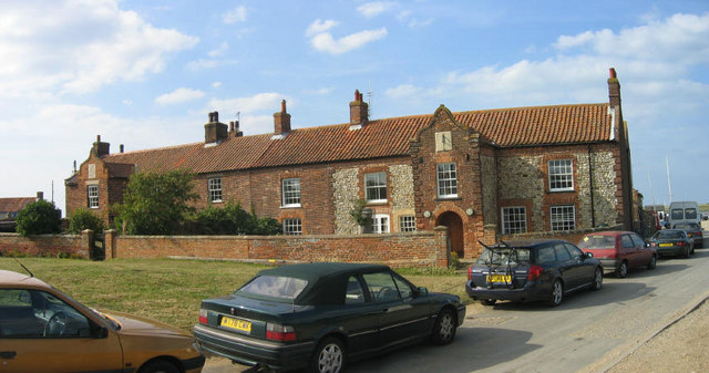 Cottages at Brancaster Staithe